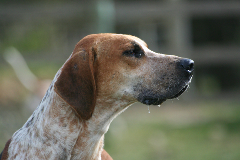 A portrait of an English Foxhound.